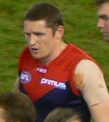 Paul Wheatley, Australian rules footballer I took this photo, please don't delete it. --Rulesfan (talk) 23:55, 15 January 2008 (UTC)